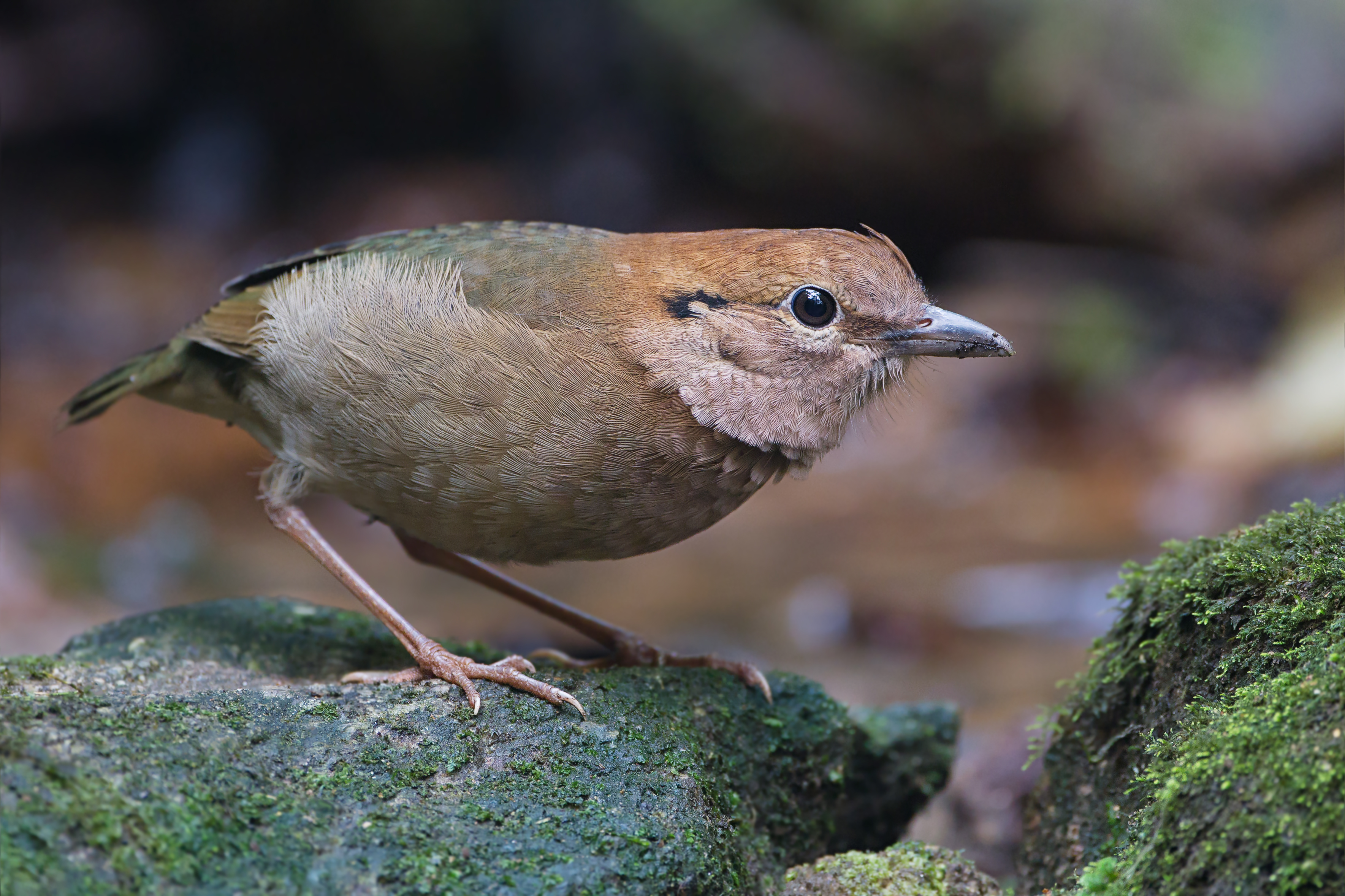 Rusty-naped Pitta (Pitta oatesi) - adult female, Mae Wong National Park, Nakhon Sawan, Thailand